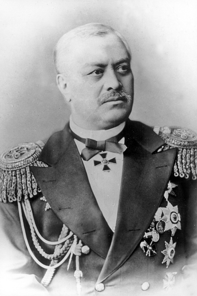 Andrei Alexandrovich Popov (21 September 1821 - 6 March 1898) was an officer of the Imperial Russian Navy, who saw action during the Crimean War, and became a noted naval designer.